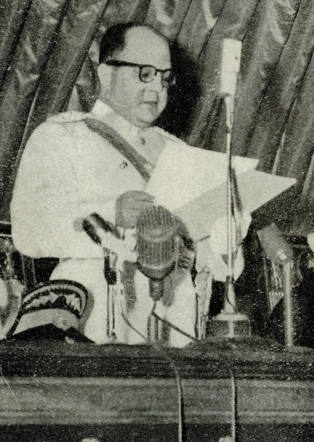 Marcos Pérez Jiménez in 1952